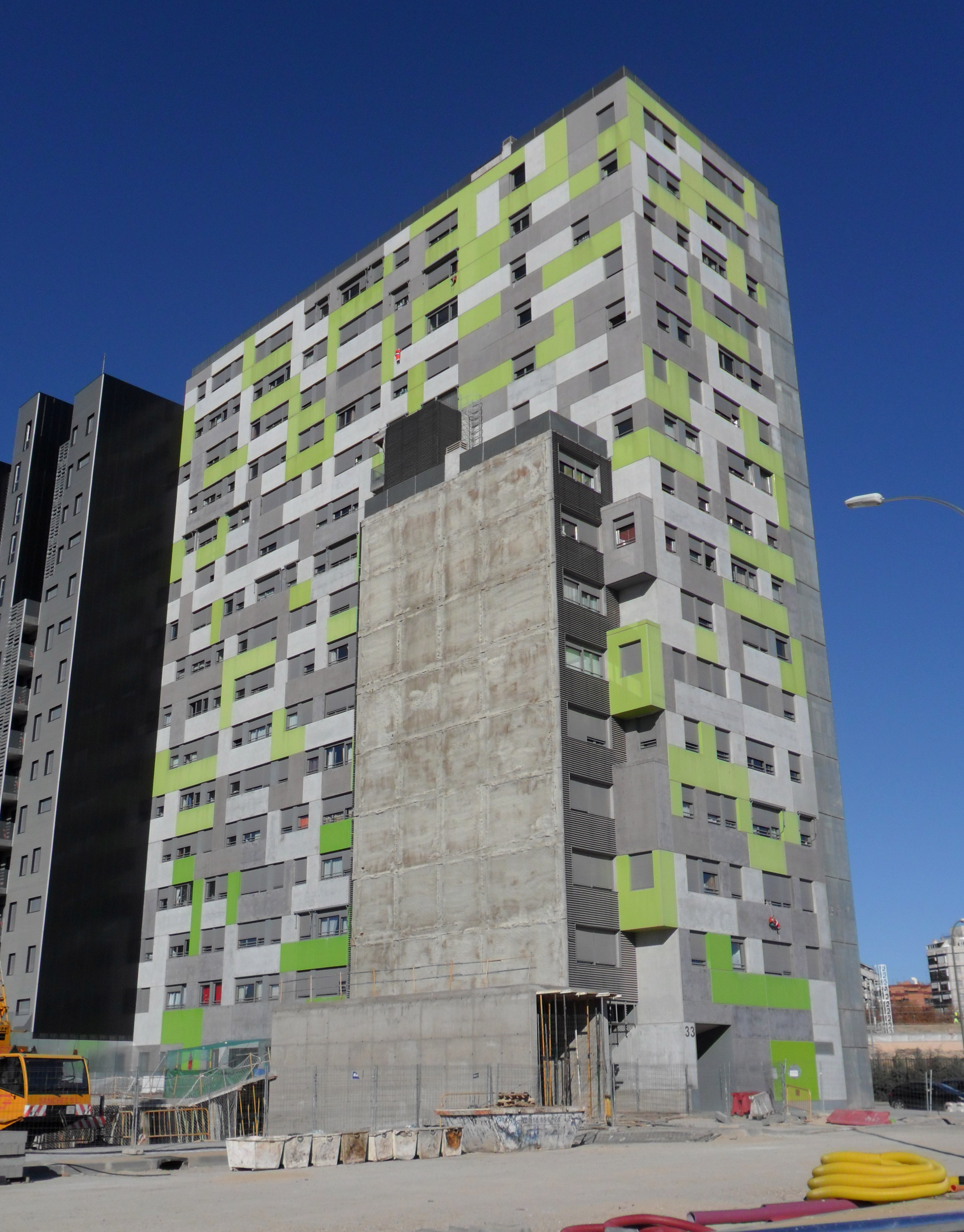 View of housing building Méndez Álvaro Norte I in Madrid (Spain) from the south angle.